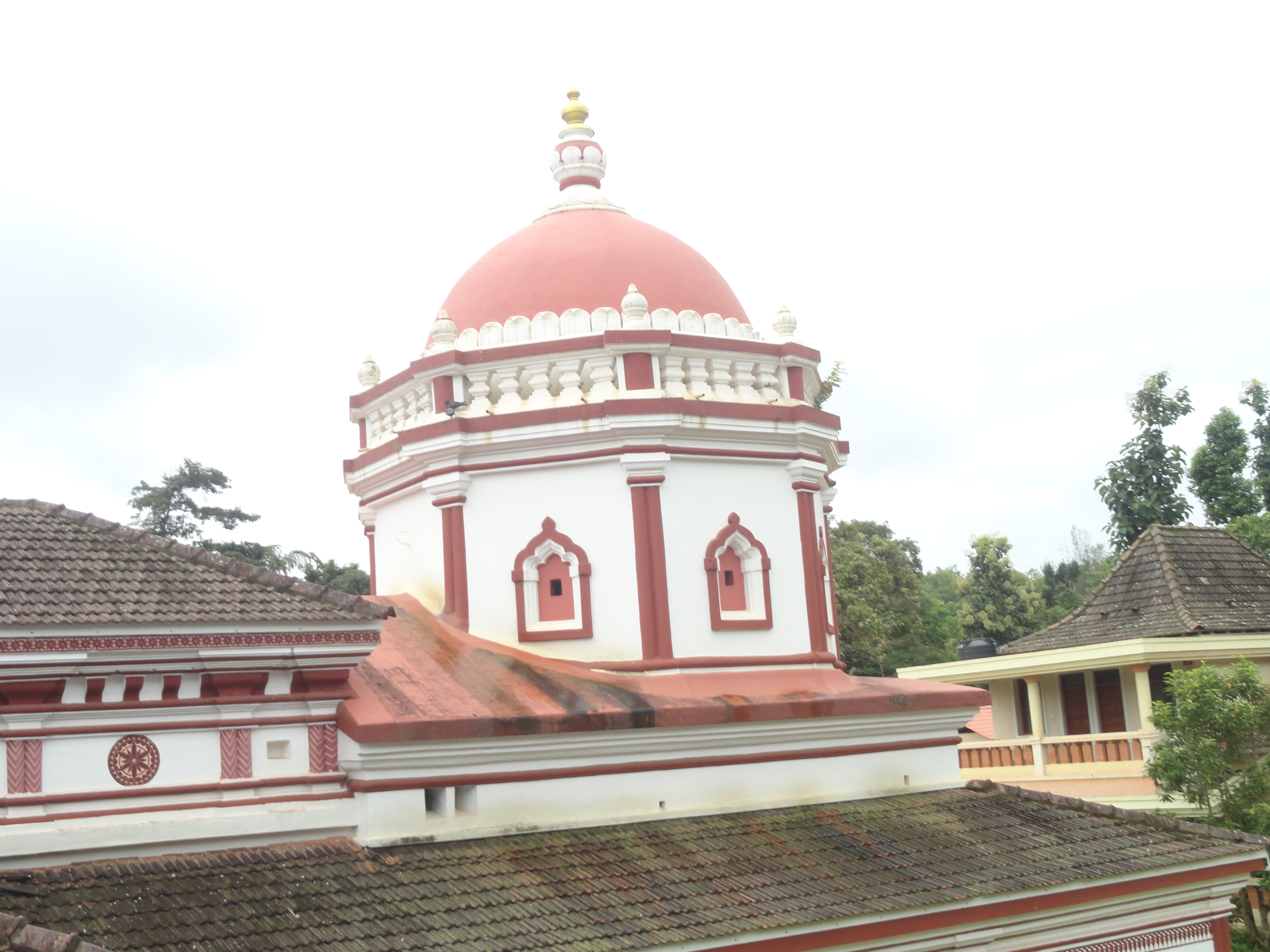 Temple at Keri - Ponda - Goa - India